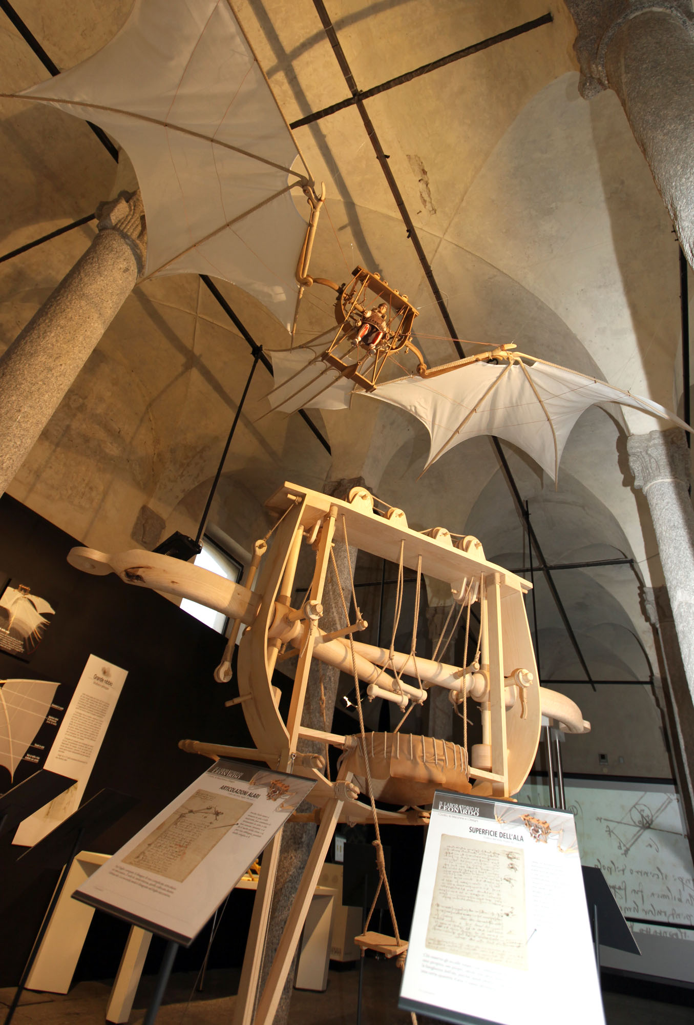 Codex on flight Leonardo da Vinci Great Kite Leonardo3